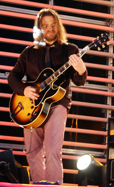 Swedish musician Christoffer Lundquist